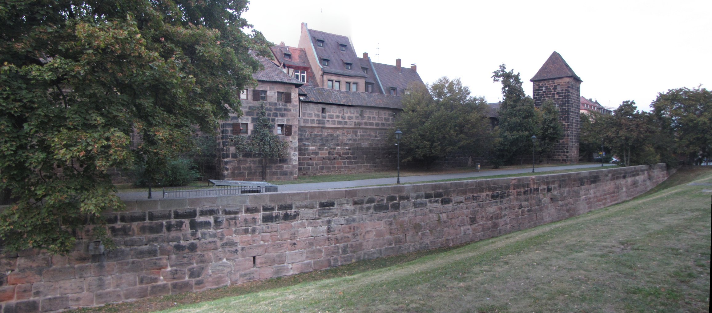 City walls of Nuremberg